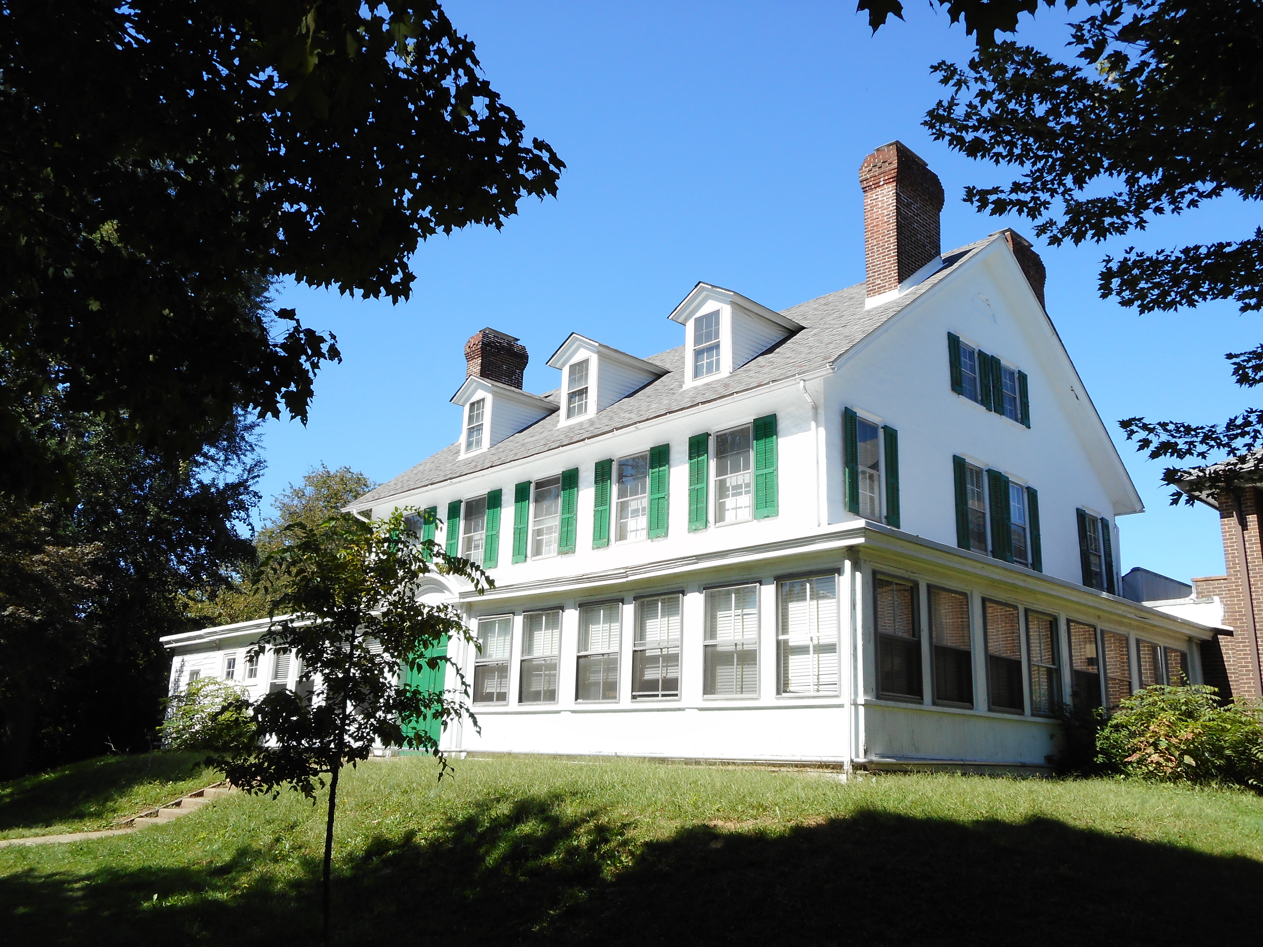 Abraham L. Pennock House in Upper Darby, Delaware County, Pennsylvania. From 1935-1975 this was the site of the main Sellers Public Library. In 1975 a new addition - just out of the photo to the right, was built and the Pennock House is now used for the children's library.